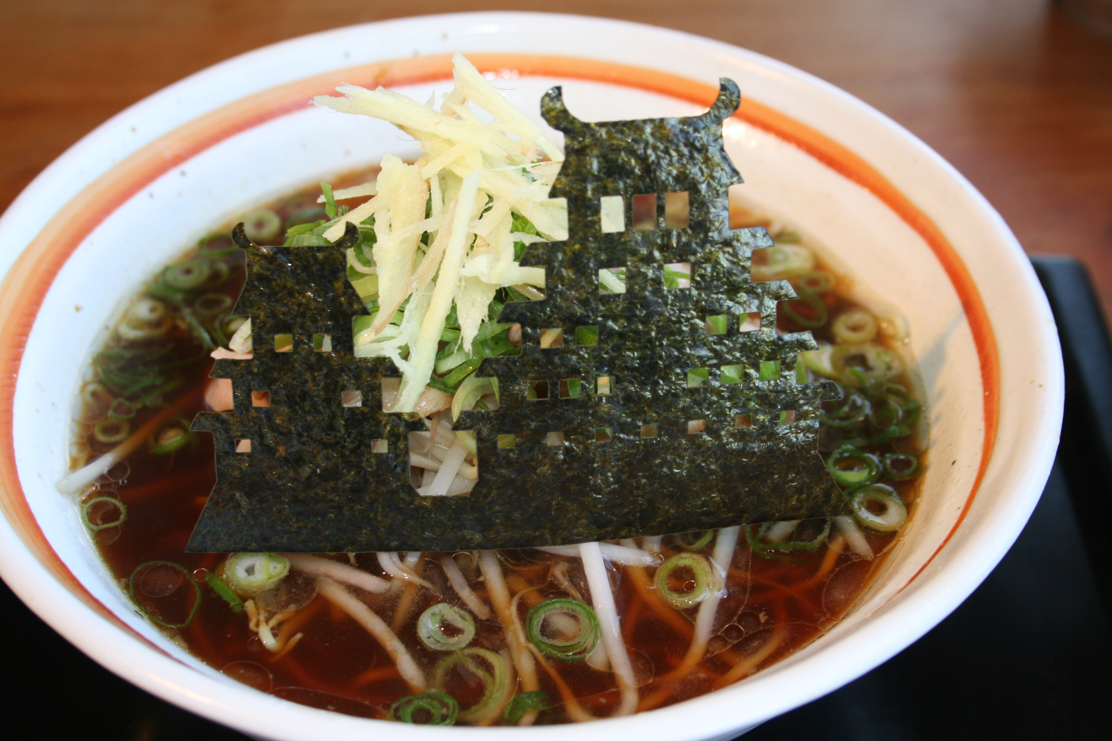 Himeji-ramen Hakkaku